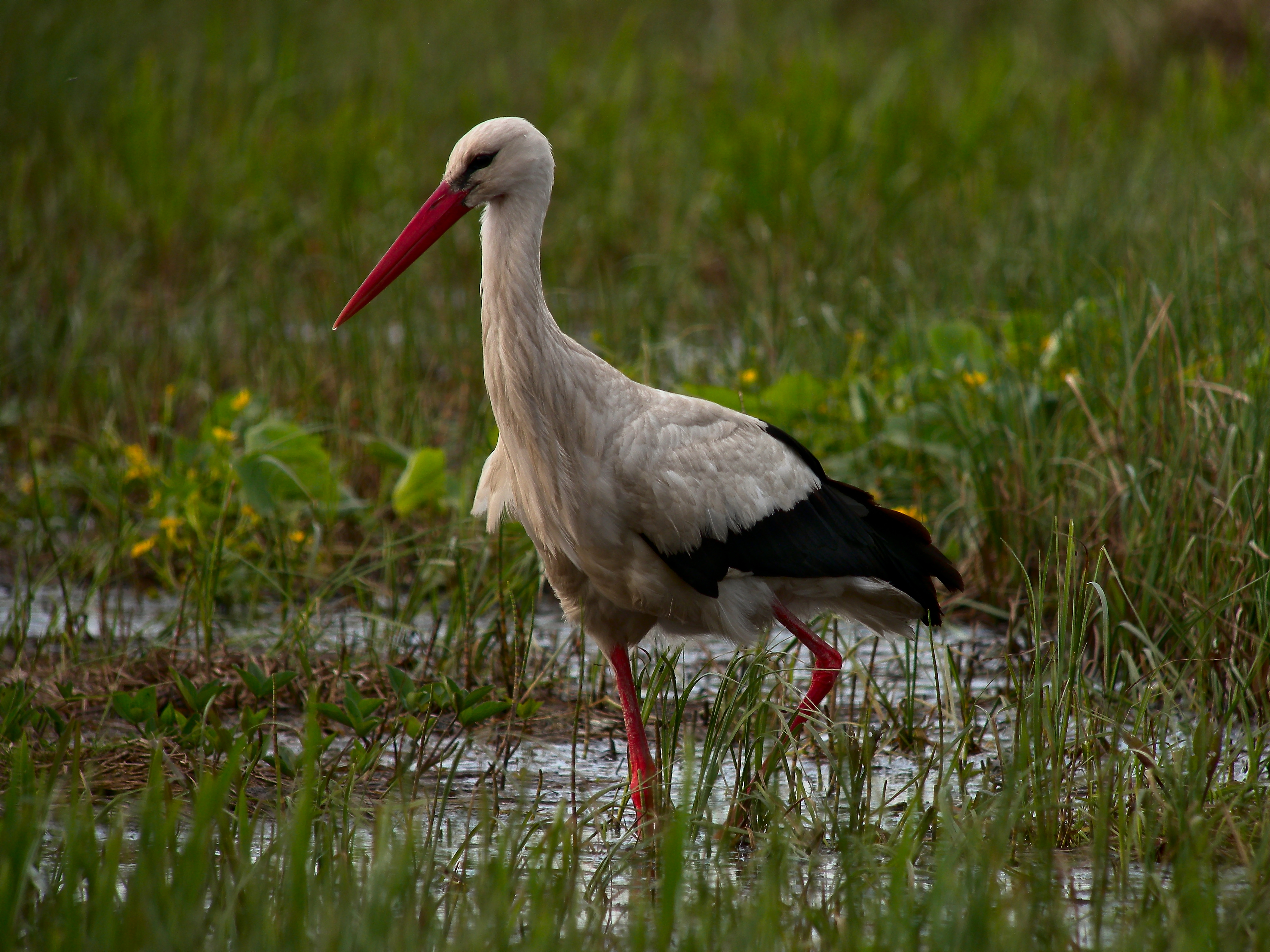 An adult White Stork wading in Mscichy, Grajewo County, Poland. Digiscoping with Swarovski ATM 80 HD 30 X, Coolpix P6000 (Adapter DCB).